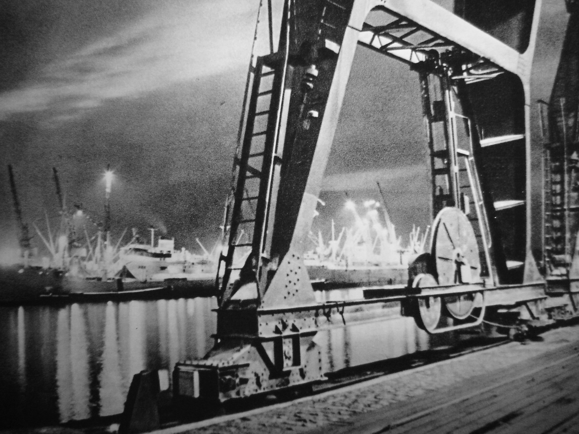 The port of Gdynia in 1964. From the book Twenty Years of the People's Republic of Poland, photographer not specified and no copyright notice in the book.